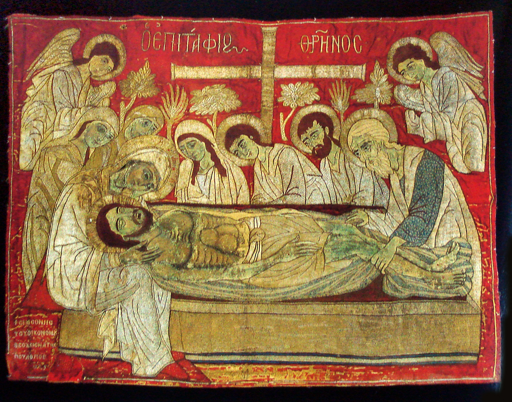 Tapestry icon with gold embroidering depicting the Entombment of Christ (Epitaphios)